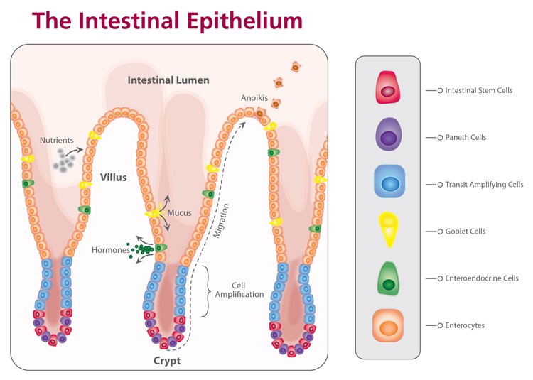 The Intestinal Epithelium